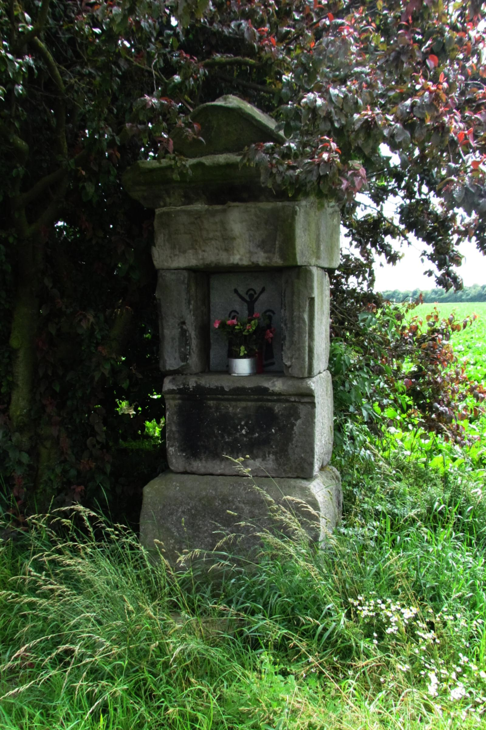 This is a photograph of an architectural monument.It is on the list of cultural monuments of Korschenbroich